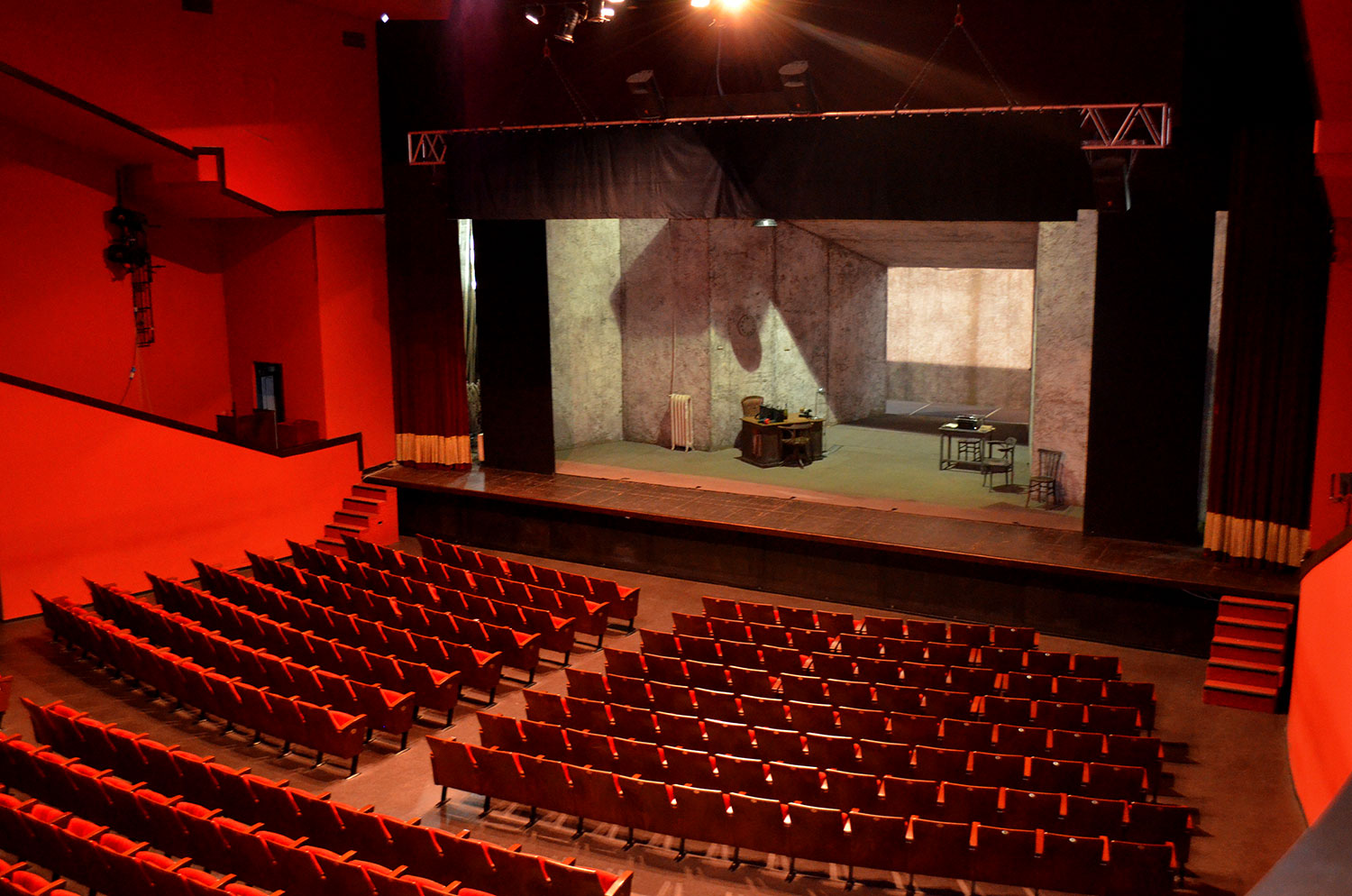 The stage of the Carcano Theater.